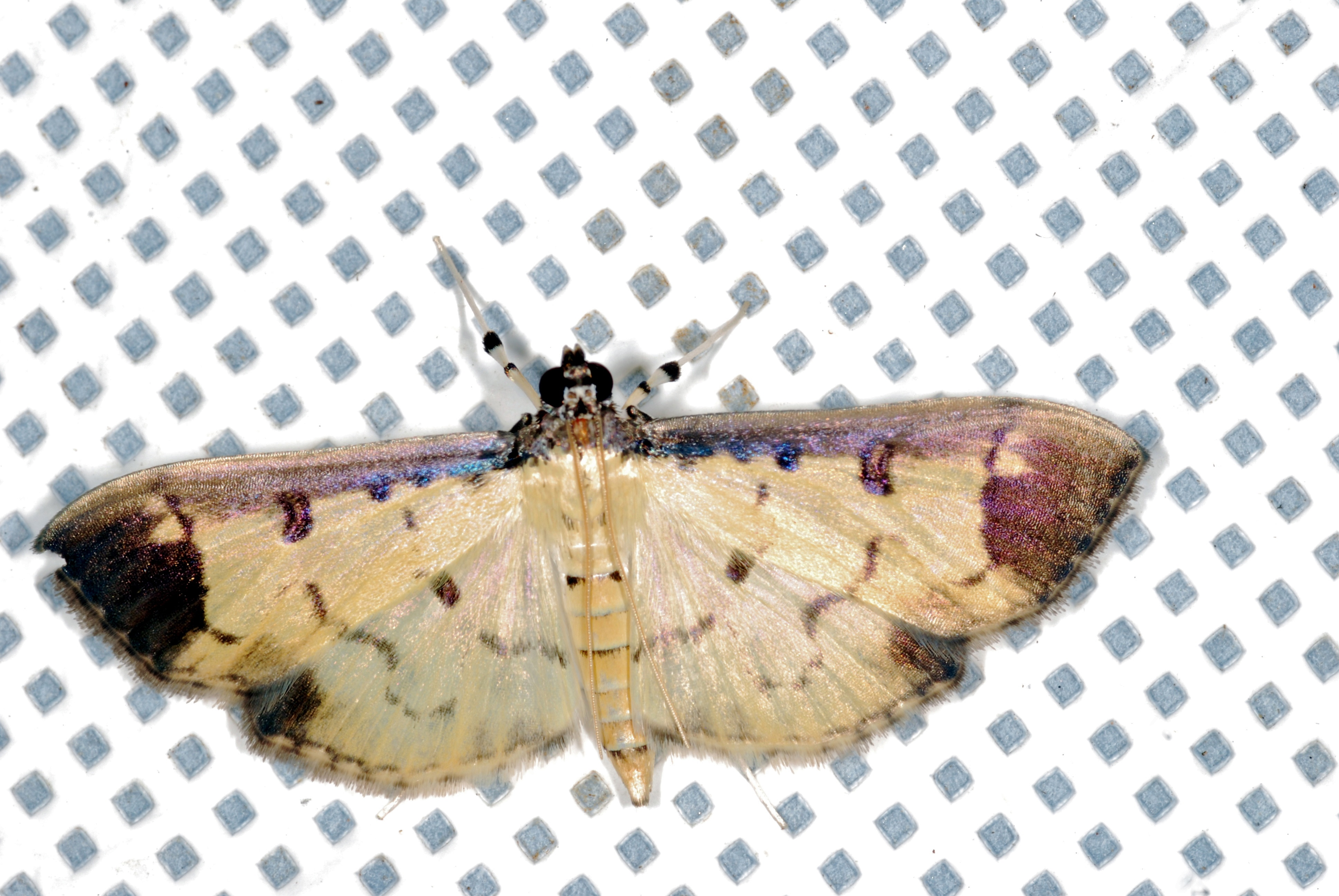 Black Rock Lodge, San Ignacio, BELIZE